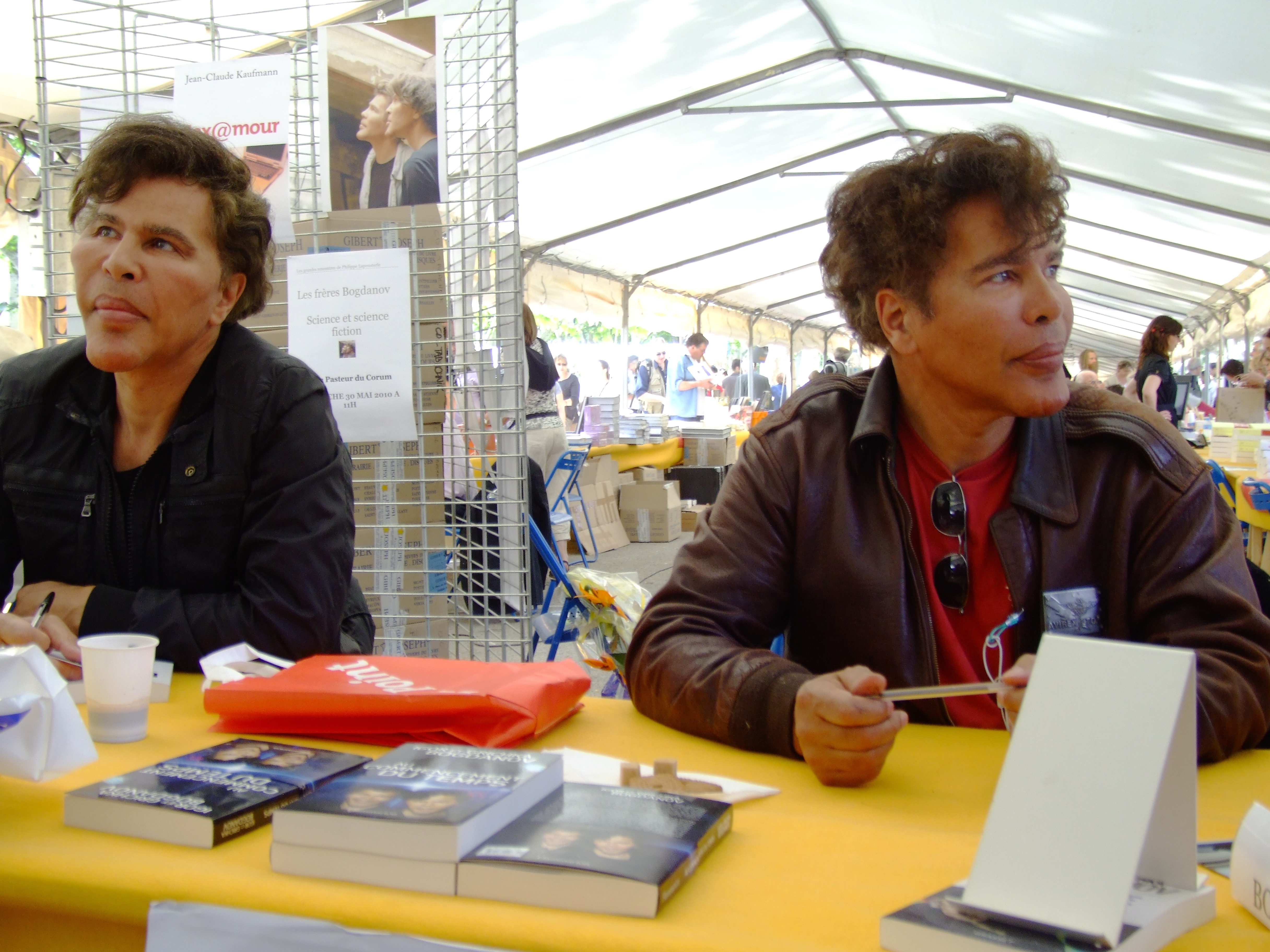 French television hosts Igor and Grichka Bogdanoff at the Comédie du Livre (fr) in Montpellier, Hérault, France.